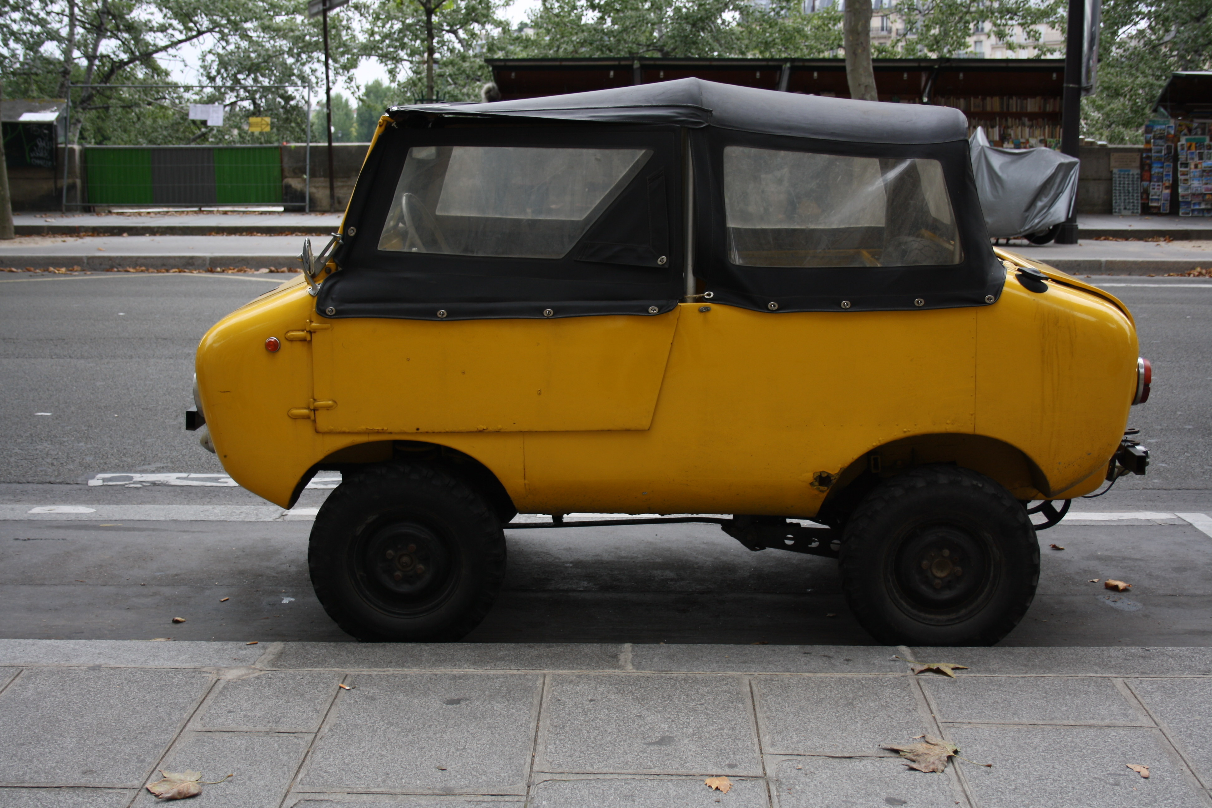 Ferves car in Paris, France